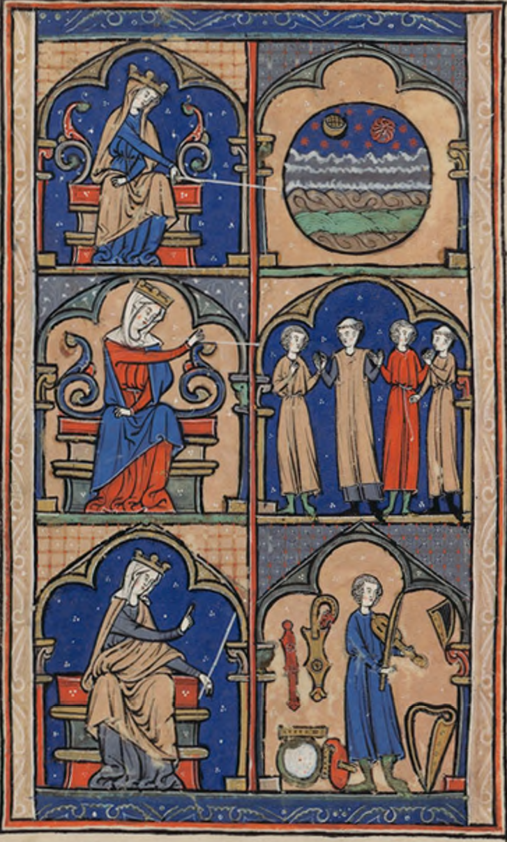 Illumination at beginning of MS F of the Magnus liber organi